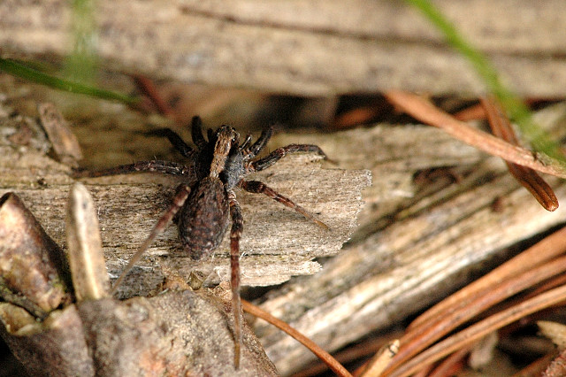 male Pardosa lugubris from Commanster, Belgian High Ardennes .